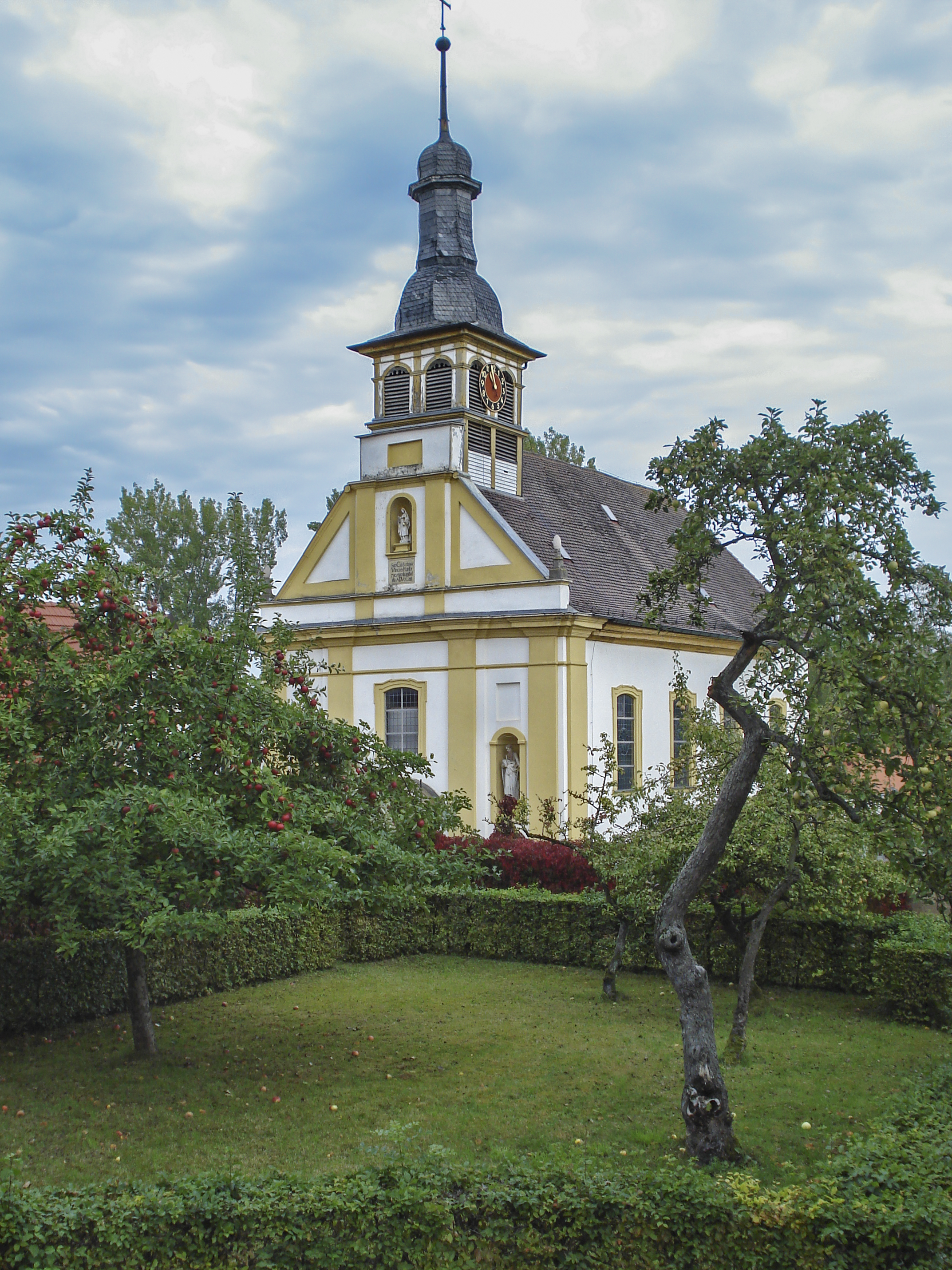 Knetzgau, Oberschwappach